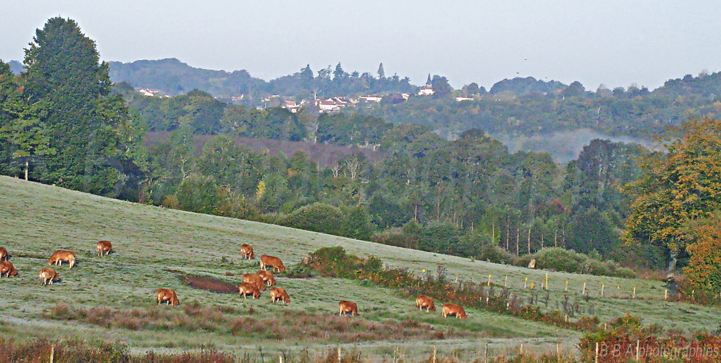 Vallée de L'Issoire, Brillac